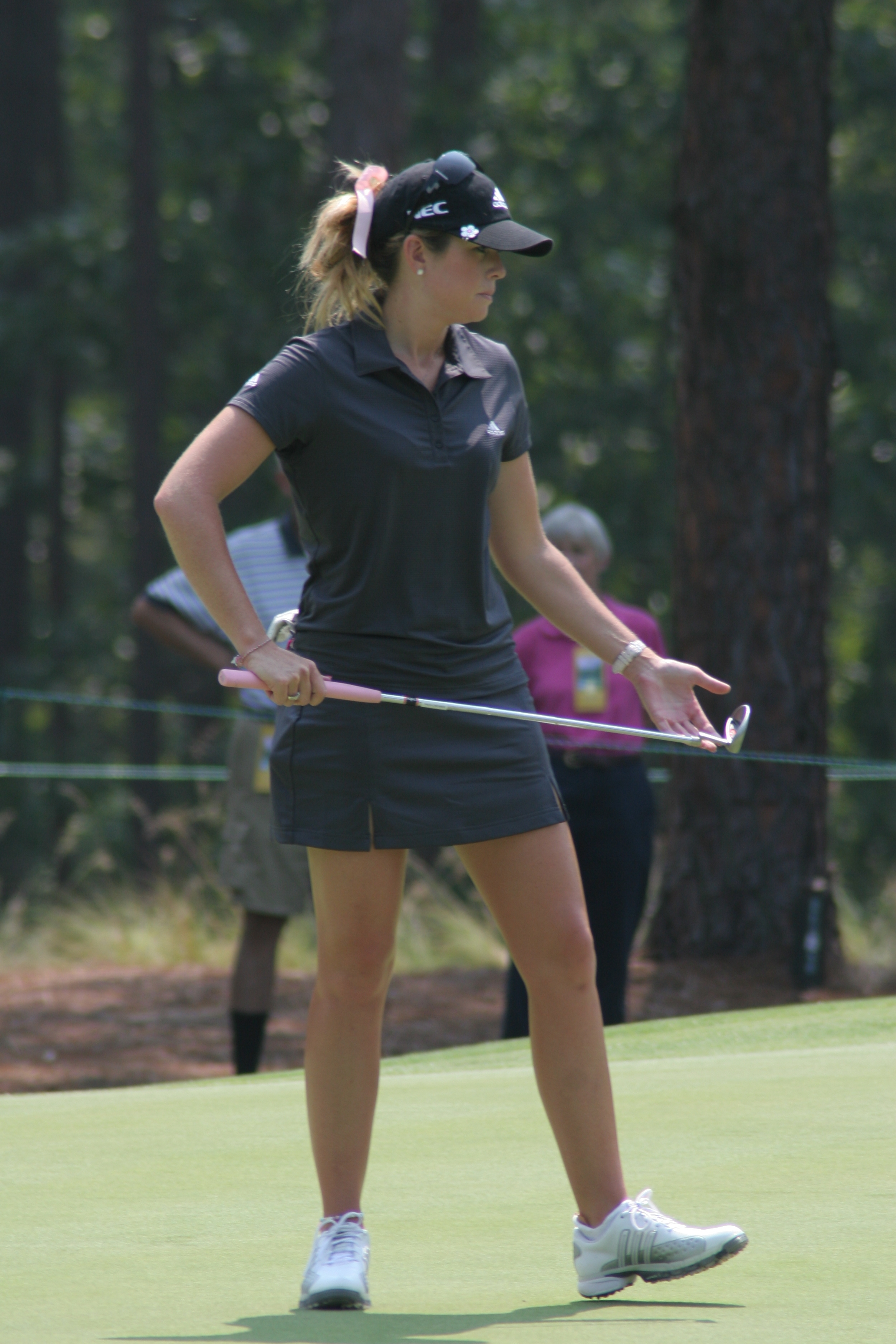 Photo by Forrest L. Smith, III. Paula Creamer, U.S.G.A. Women's Open Practice Round, June 26, 2007, Pine Needles Club, Southern Pines, N.C.